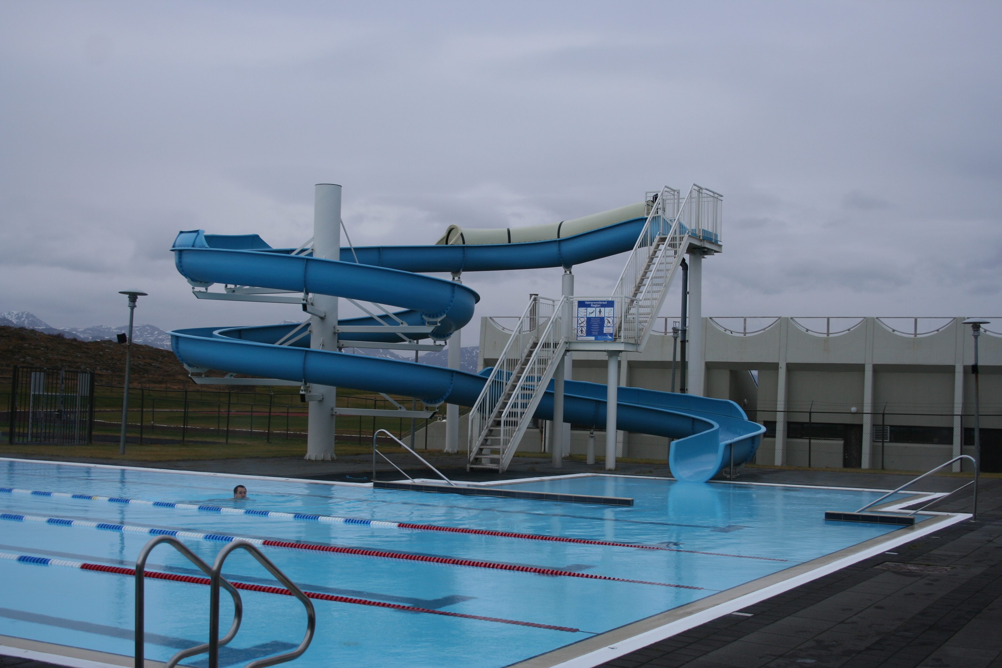 A picture of the water slide at Sundlaug Stykkishólms